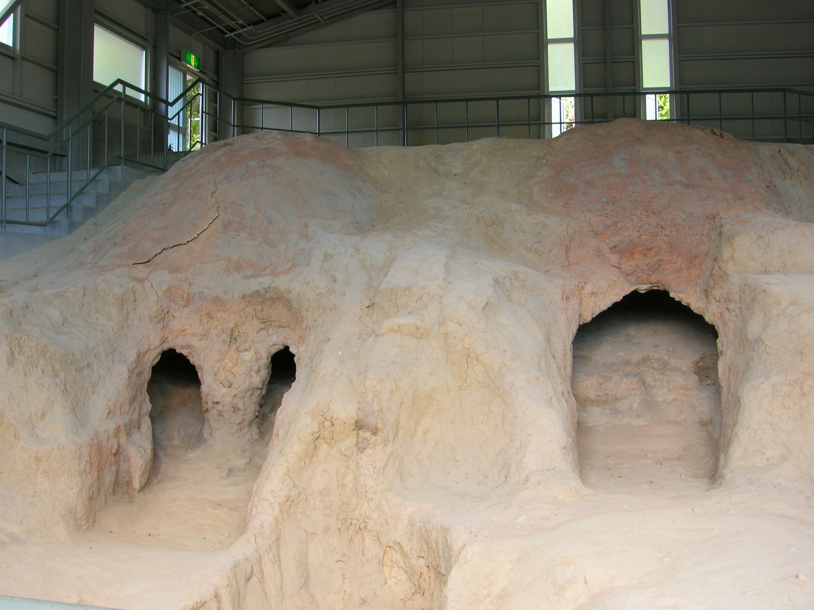 Minamiyama koyouseki-gun (Ruin of Minamiyama Old kilns). These anagama kilns were used until the Heian period Kamakura period. Loc: Seto city, Aichi Prefecture, Japan. 南山古窯跡群・9-A号窯（左）、9-B号窯（右） 撮影場所 愛知県瀬戸市・愛知県陶磁資料館